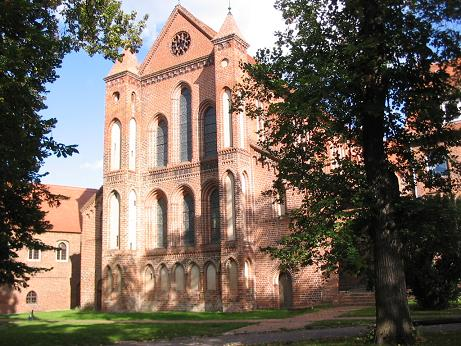 Gothic West-facade of St. Marien church — of the Kloster Lehnin (Lehnin abbey). A German Brick Gothic era church and monastary in Landkreis Potsdam-Mittelmark, Brandenburg, northeast Germany.